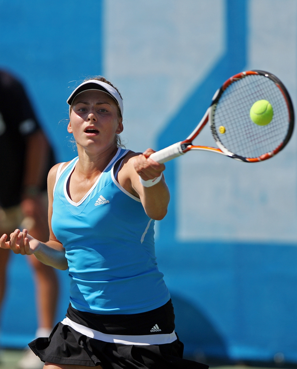 Ksenia Pervak - Portorož 2009